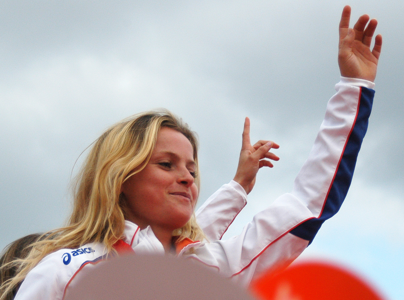 Fatima Moreira de Melo at the Olympic welcome in the Olympic Stadium in Amsterdam, the Netherlands